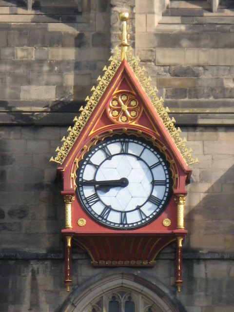 Clock on the spire of St Nicholas